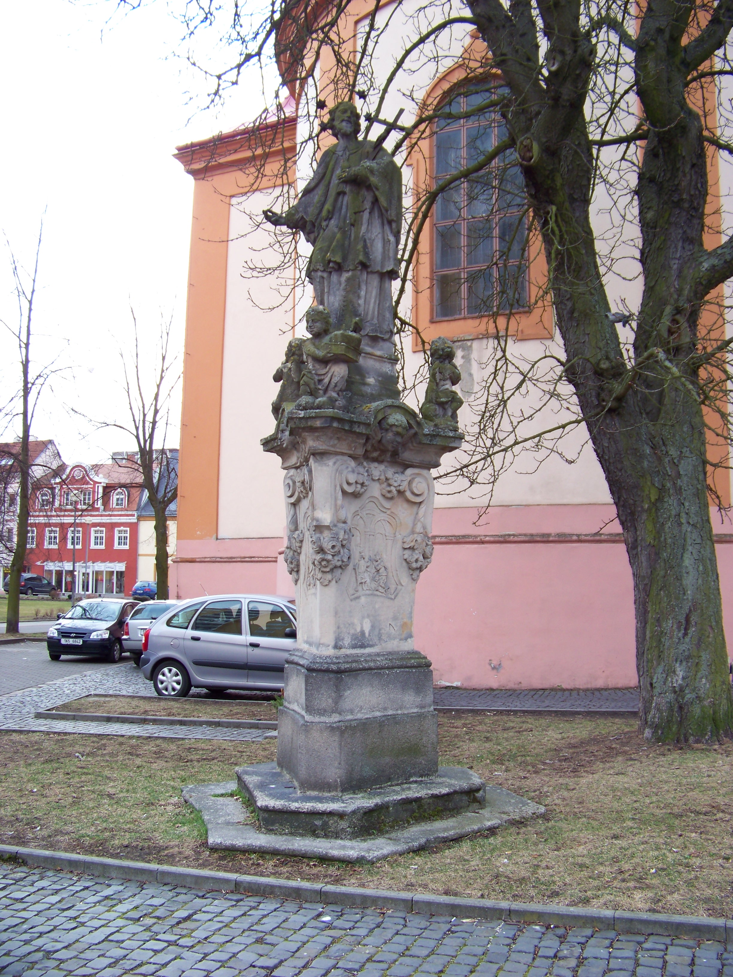 Sokolov, Sokolov District, Karlovy Vary Region, the Czech Republic. Růžové náměstí, a statue of John of Nepomuk at Saint James church.